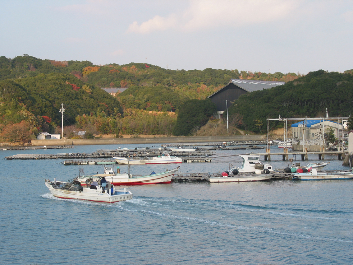 The Toba Sea-Folk Museum view from seaside 付近の海岸から見た海の博物館